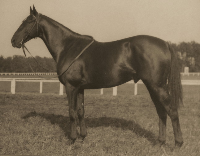 Battleship (1927–1958) was an American Thoroughbred racehorse who is the only horse to win both the American Grand National and the English Grand National steeplechase races.